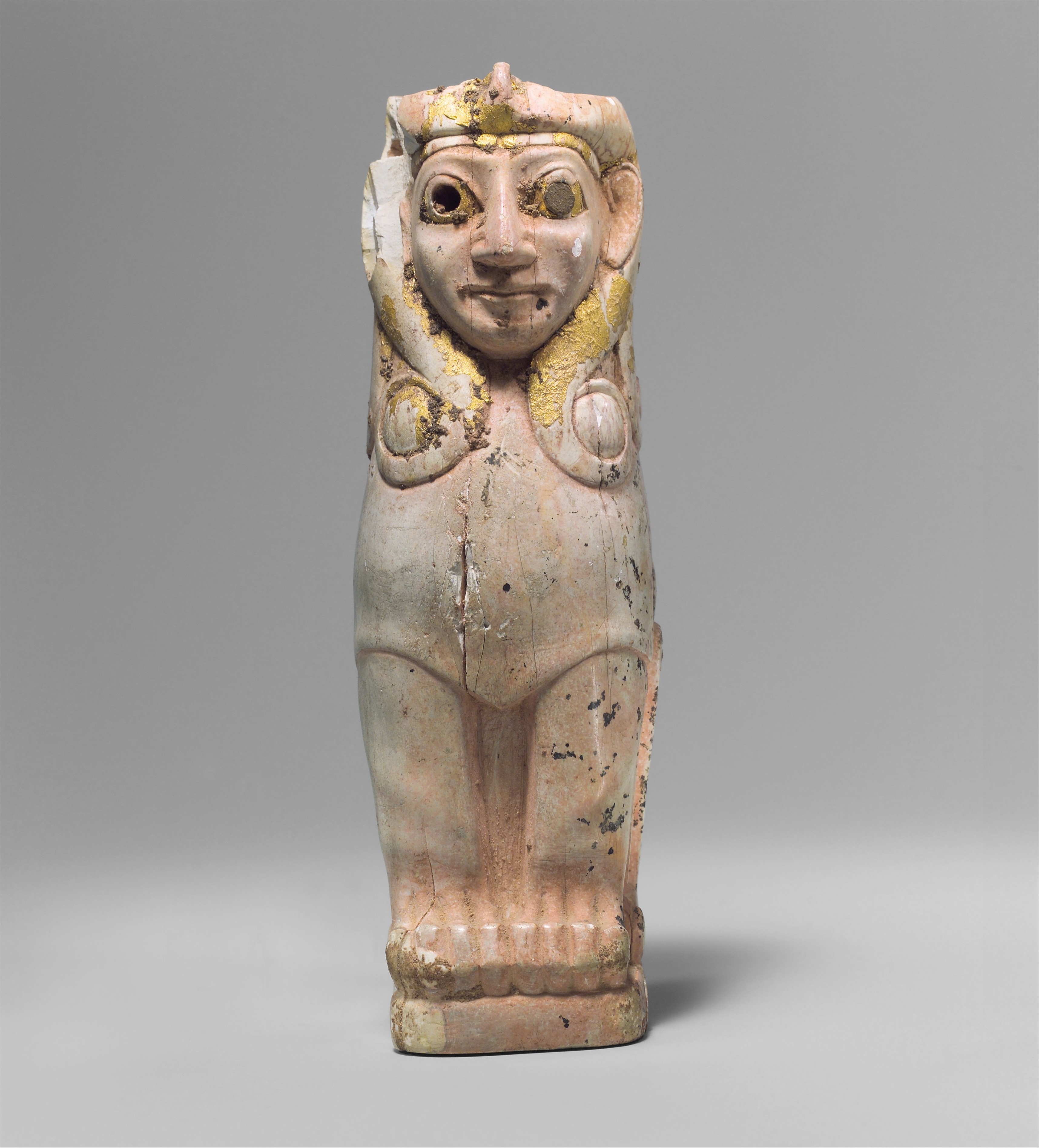 Old Assyrian Trading Colony; Furniture support; Ivory/Bone-Sculpture